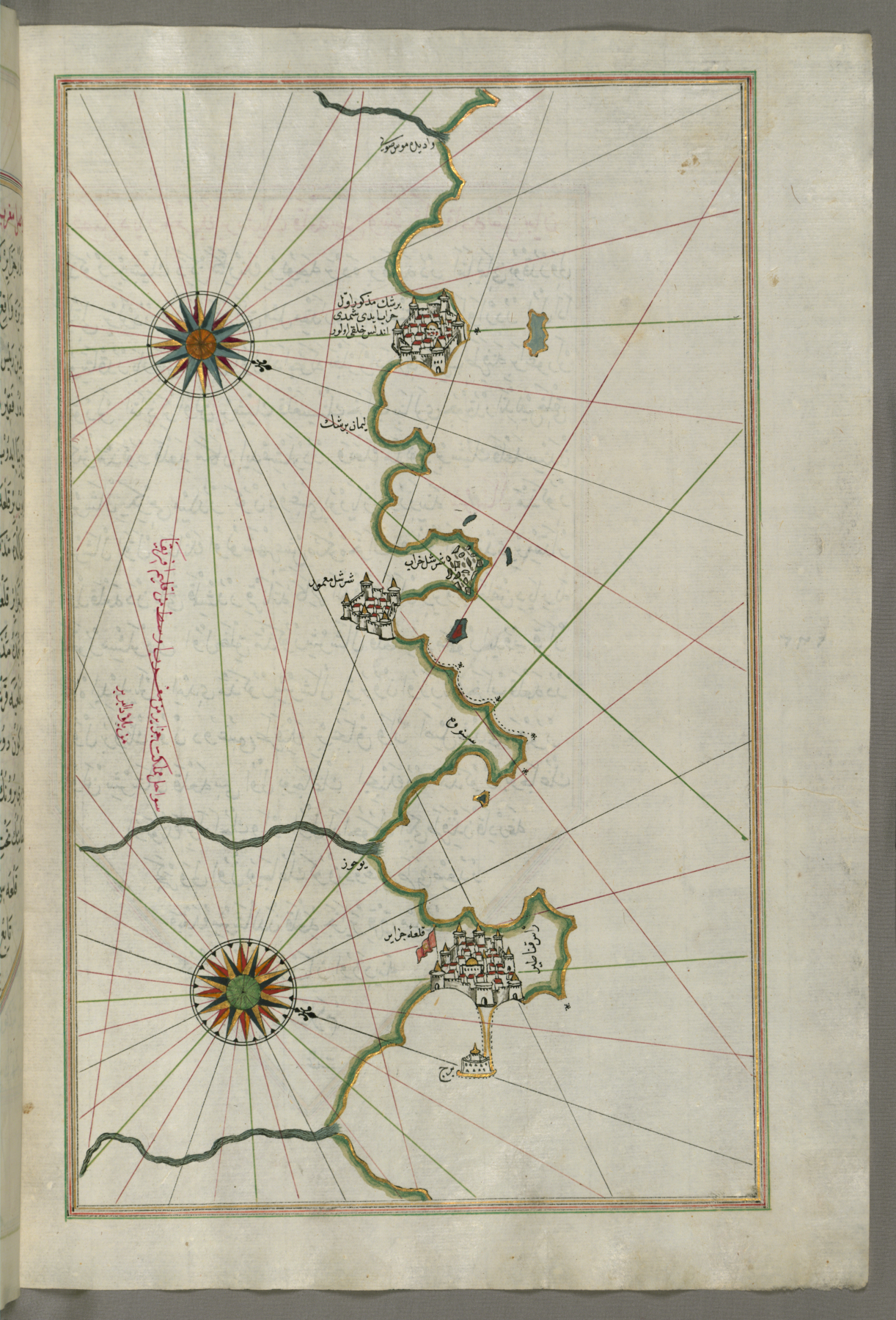 This folio from Walters manuscript W.658 contains a map of the Algerian coast around Algiers (Jaza'ir).